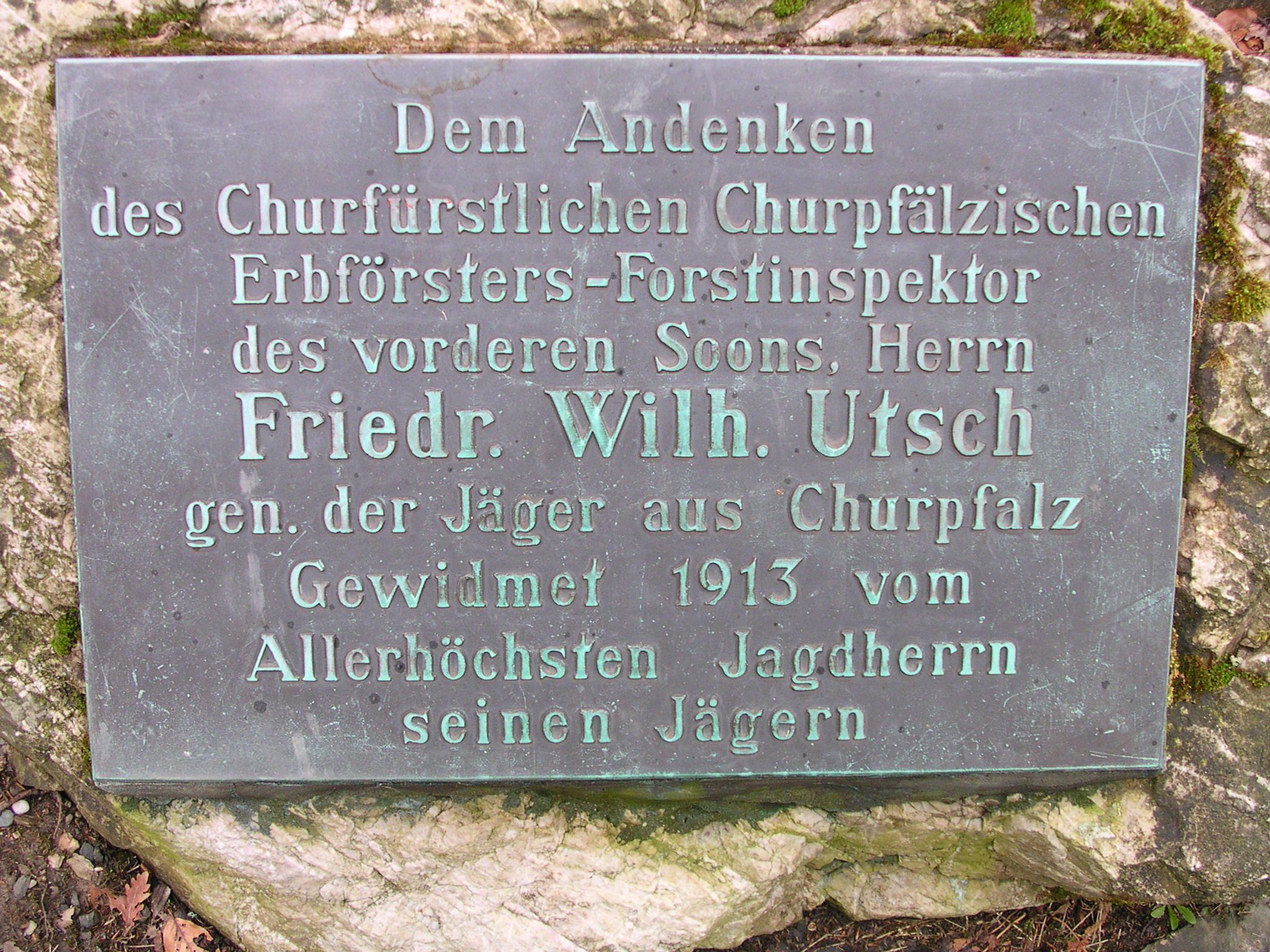 memorial for Friedrich Wilhelm Utsch